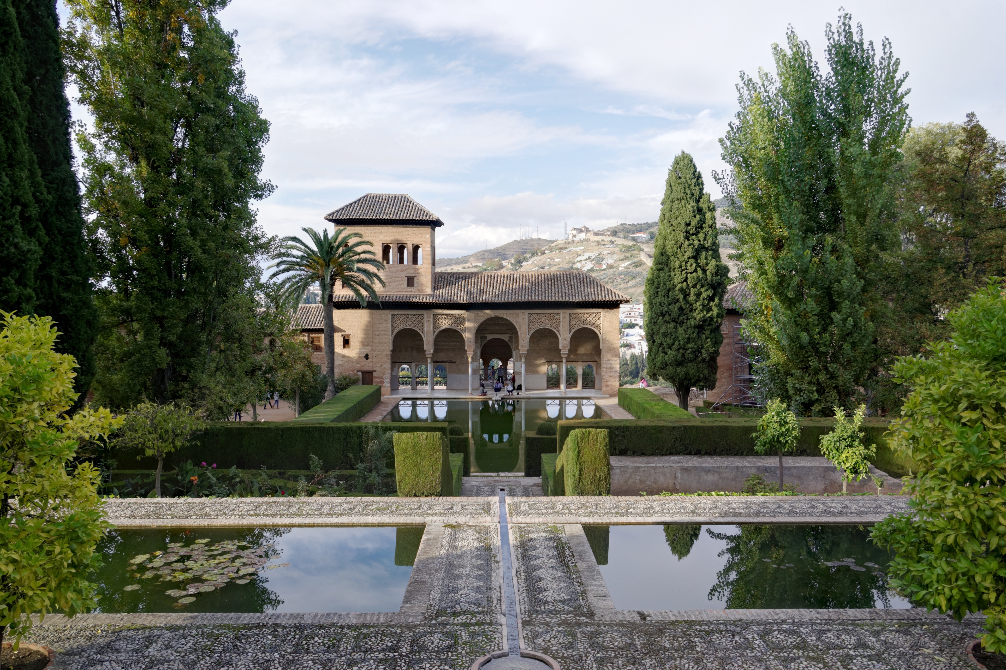 Spain, Granada, Alhambra, Casas del Partal